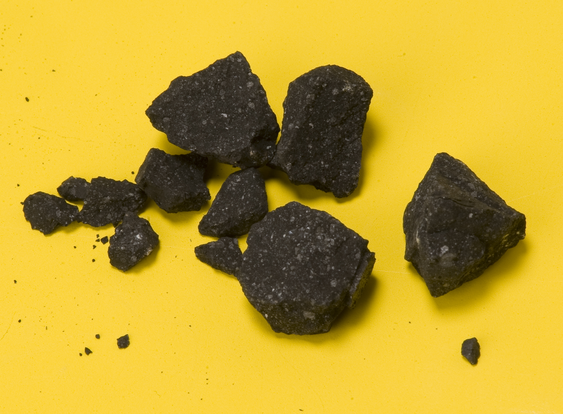 Fragments of of a crushed 4 gram meteorite (SM2) belonging to the Sutter's Mill meteorite, which is thought to be a rare CM type carbonaceous chondrite. The fragments were obtained from the parking lot of Henningsen Lotus Park in Lotus, California, near Sutter's Mill, by astronomer Peter Jenniskens. The white specks are calcium aluminium inclusions.